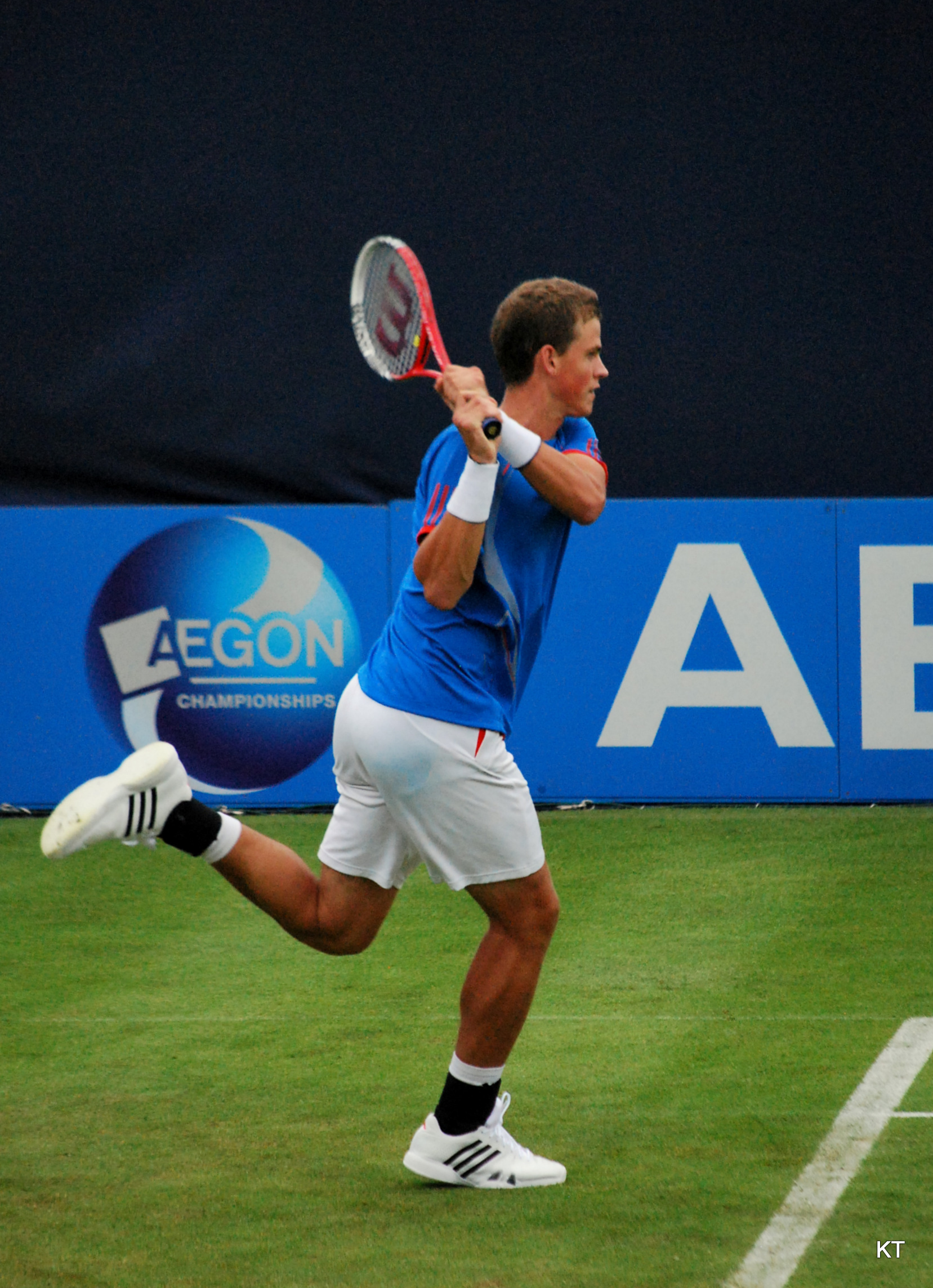 Vasek Pospisil during his first round match with David Nalbandian in the Aegon Championships, Queen's Club 2012.